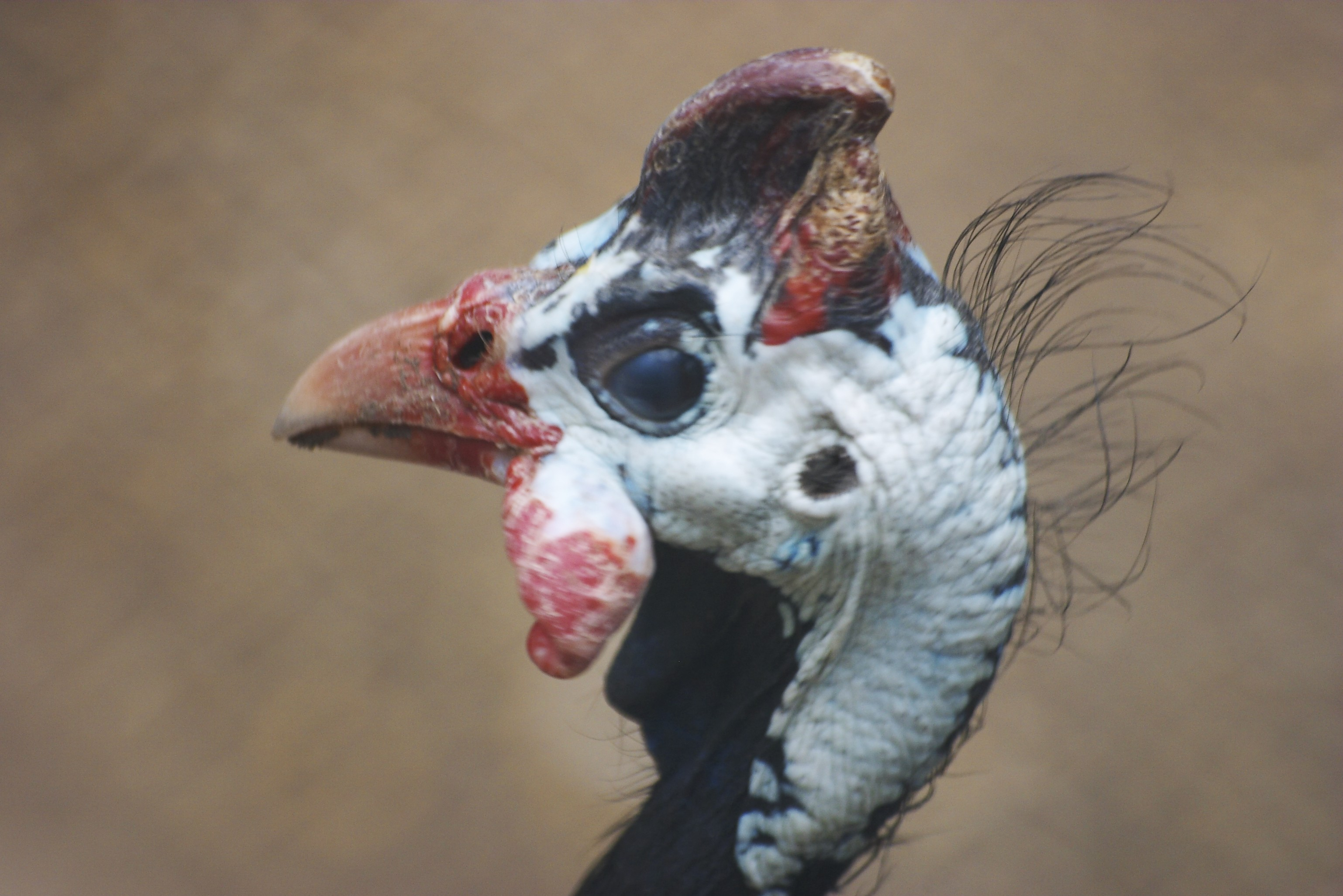 Numida meleagris at América's zoo, Argentina.